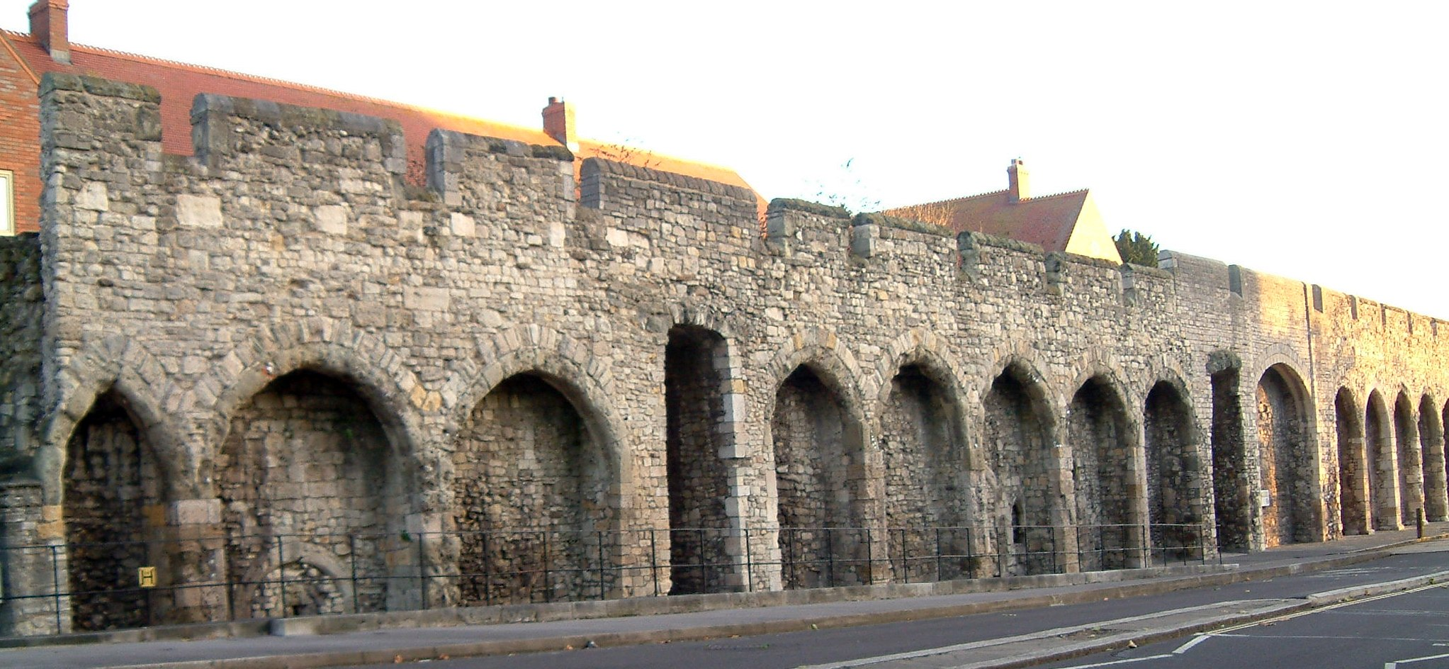 Southampton, England, United-Kingdom